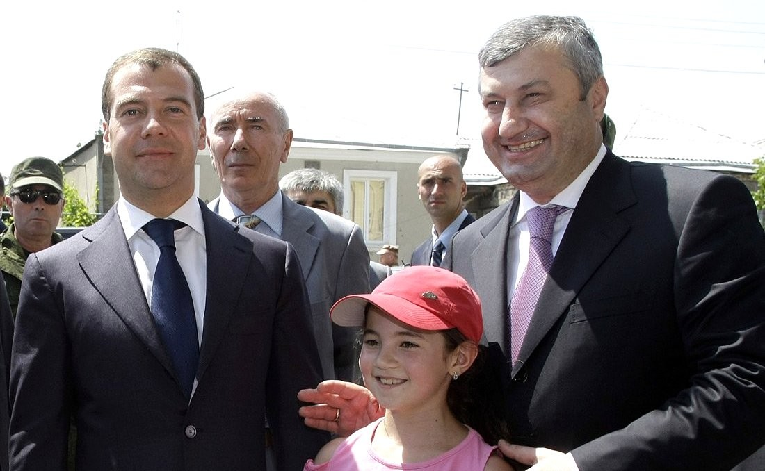 ЦХИНВАЛ. Визит в Южную Осетию. Справа – Президент Южной Осетии Эдуард Кокойты..